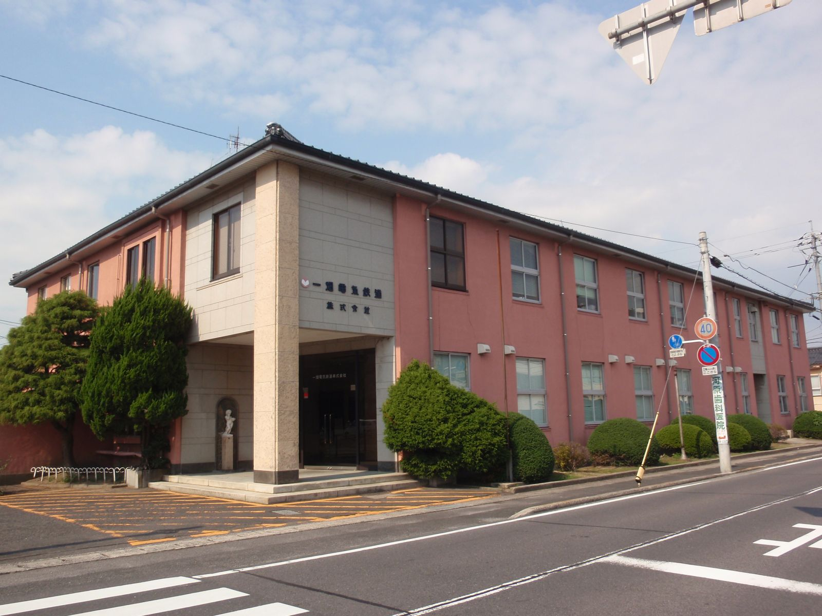 Ichibata Electric Railway Co., Ltd. main office